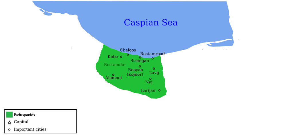 Map of the Paduspanid dynasty.